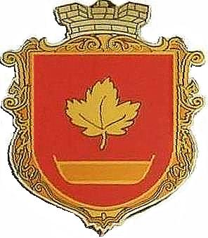 Coat of Arms Yavoriv (Lviv Oblast Ukraine)